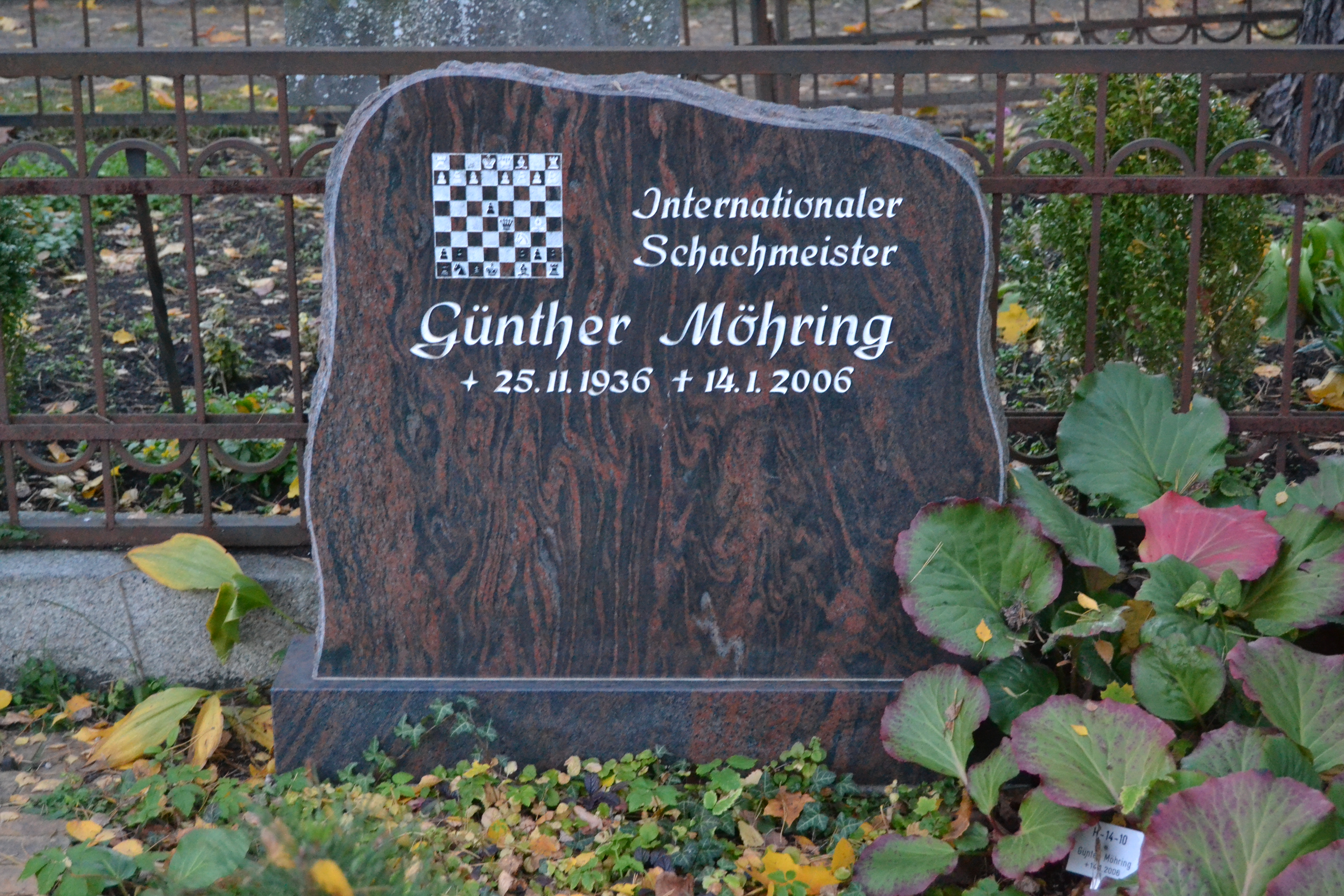 Protestant Cemetery Berlin-Friedrichshagen.